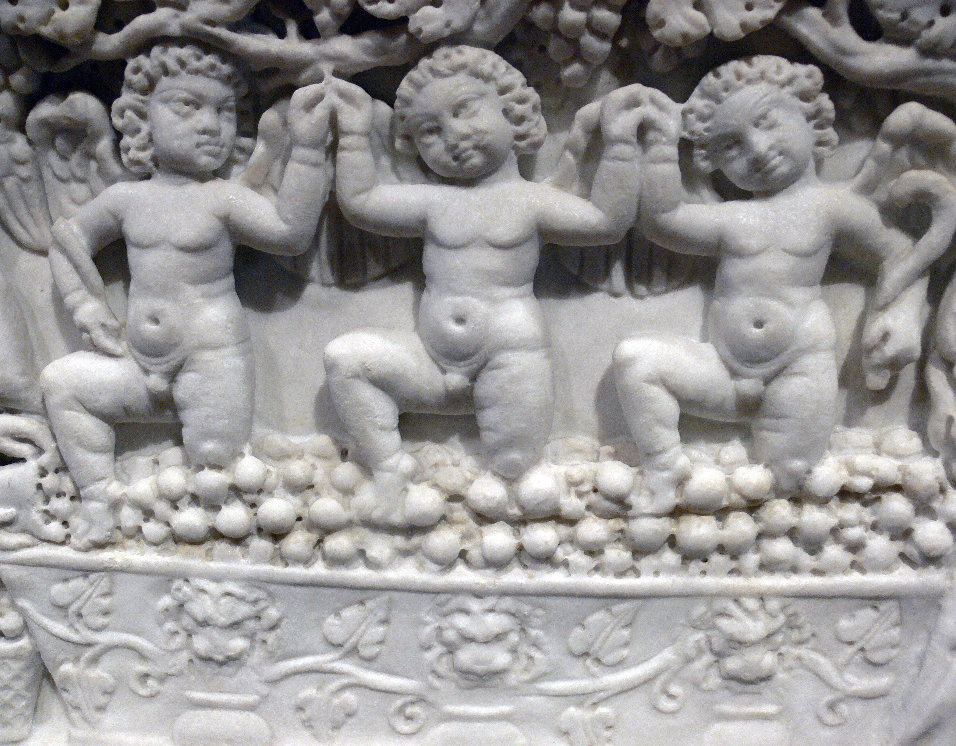 Sarcophagus with a vintage scene.